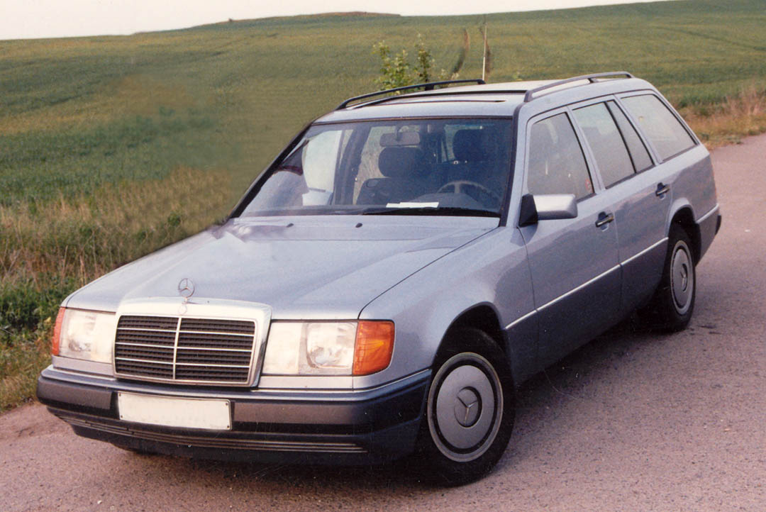 Mercedes E-Class Station Wagon (W124T)